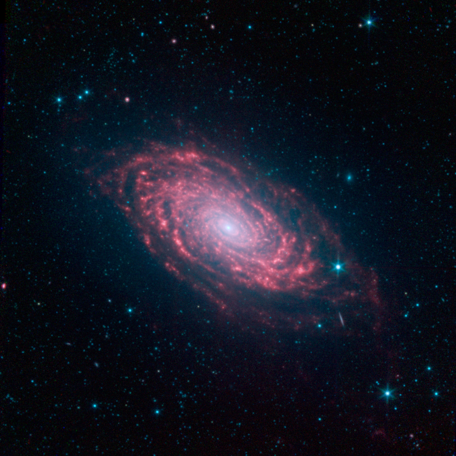 The various spiral arm segments of the Sunflower galaxy, also known as Messier 63, show up vividly in this image taken in infrared light by NASA's Spitzer Space Telescope. Infrared light is sensitive to the dust lanes in spiral galaxies, which appear dark in visible-light images. Spitzer's view reveals complex structures that trace the galaxy's spiral arm pattern. Messier 63 is 37 million light years away -- not far from the well-known Whirlpool galaxy and the associated Messier 51 group of galaxies. The dust, glowing red in this image, can be traced all the way down into the galaxy's nucleus, forming a ring around the densest region of stars at its center. The dusty patches are where news stars are being born. The short diagonal line seen on the lower right side of the galaxy's disk is actually a much more distant galaxy, oriented with its edge facing toward us. Blue shows infrared light with wavelengths of 3.6 microns, green represents 4.5-micron light and red, 8.0-micron light. The contribution from starlight measured at 3.6 microns has been subtracted from the 8.0-micron image to enhance the visibility of the dust features.